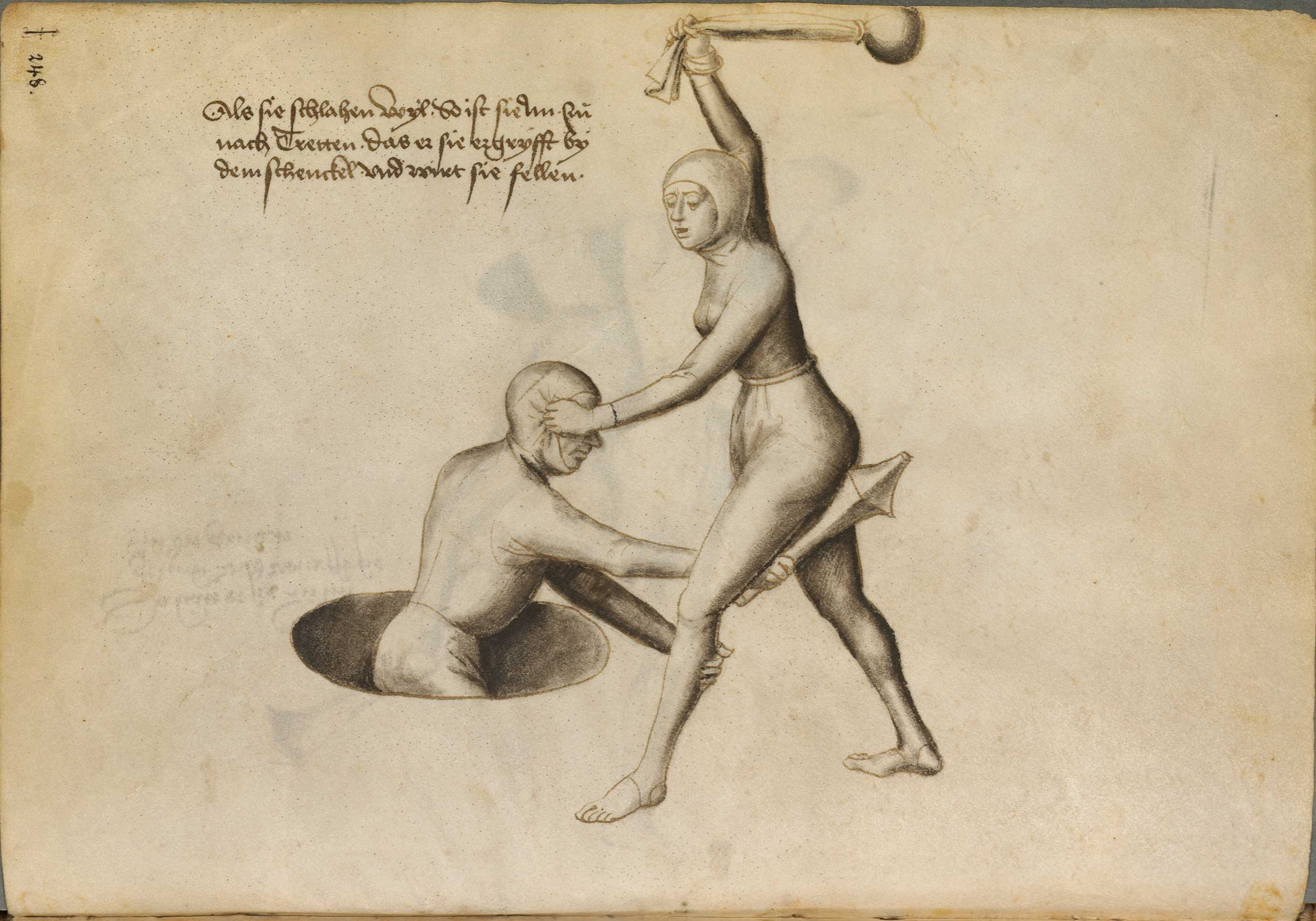 This is a scan of the historical Fechtbuch ('fencing book') by German fencing master Hans Talhoffer.